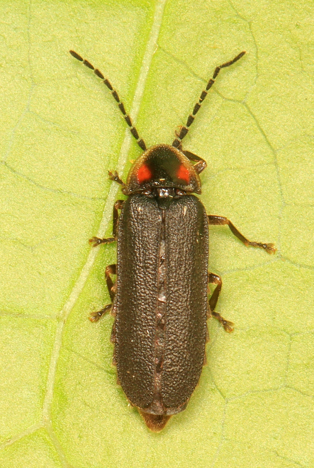 Firefly - Lucidota punctata, Prince William Forest Park, Triangle, Virginia